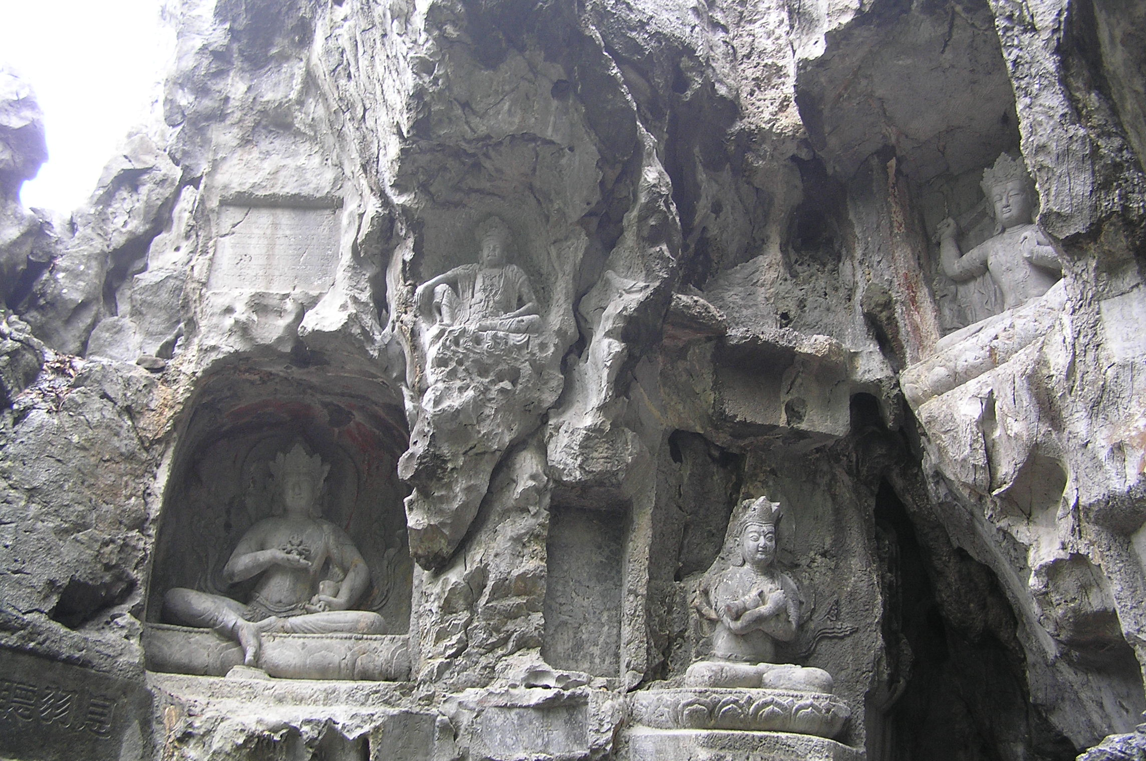 Buddha carvings in Feilai Feng (The Peak that Flew from Afar) Caves (Hangzhou, China) Author: Mr. Tickle Date: 07/26, 2005